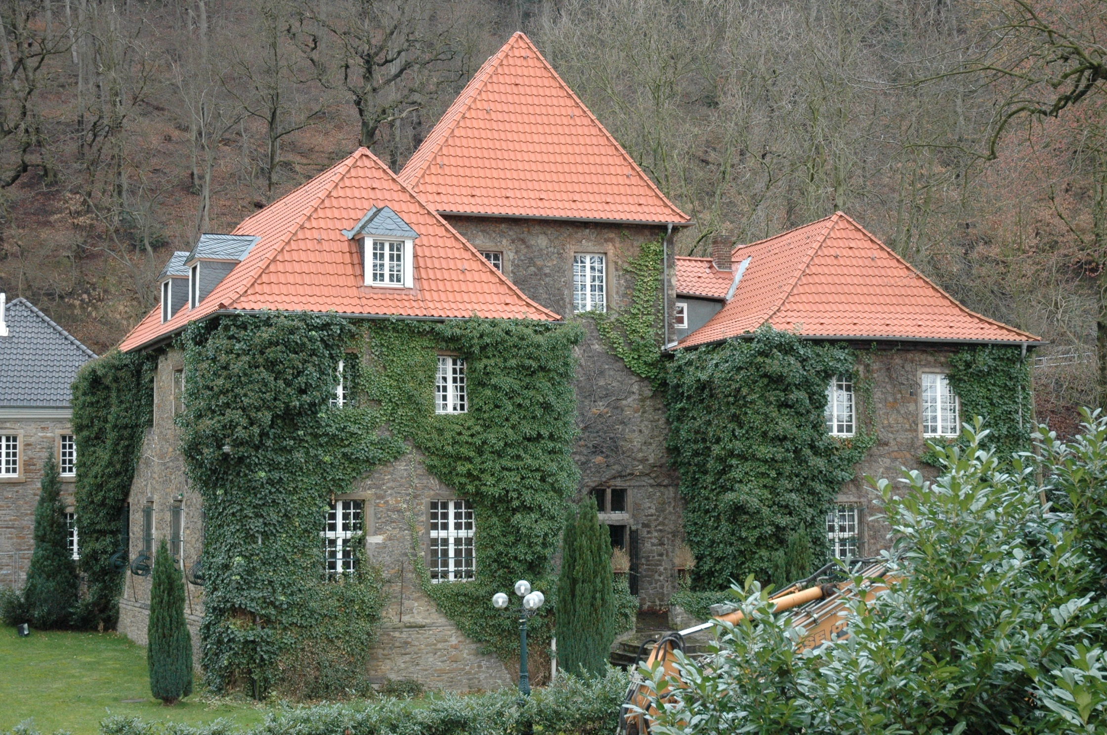 Baldeney Castle, main building, south-western aspect